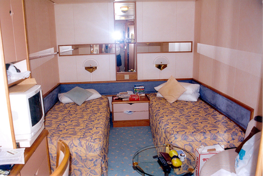 Our cabin in the Royal Caribbean cruise ship, Splendour of the Seas. It was the same size as other cabins, just a bit inconvenient because it was in the most remote area of the ship. Janet was bridge director on the cruise, and I was her assistant. I saw something which showed that this was the designated cabin for the bridge director. I believe it was 2797, on B deck.